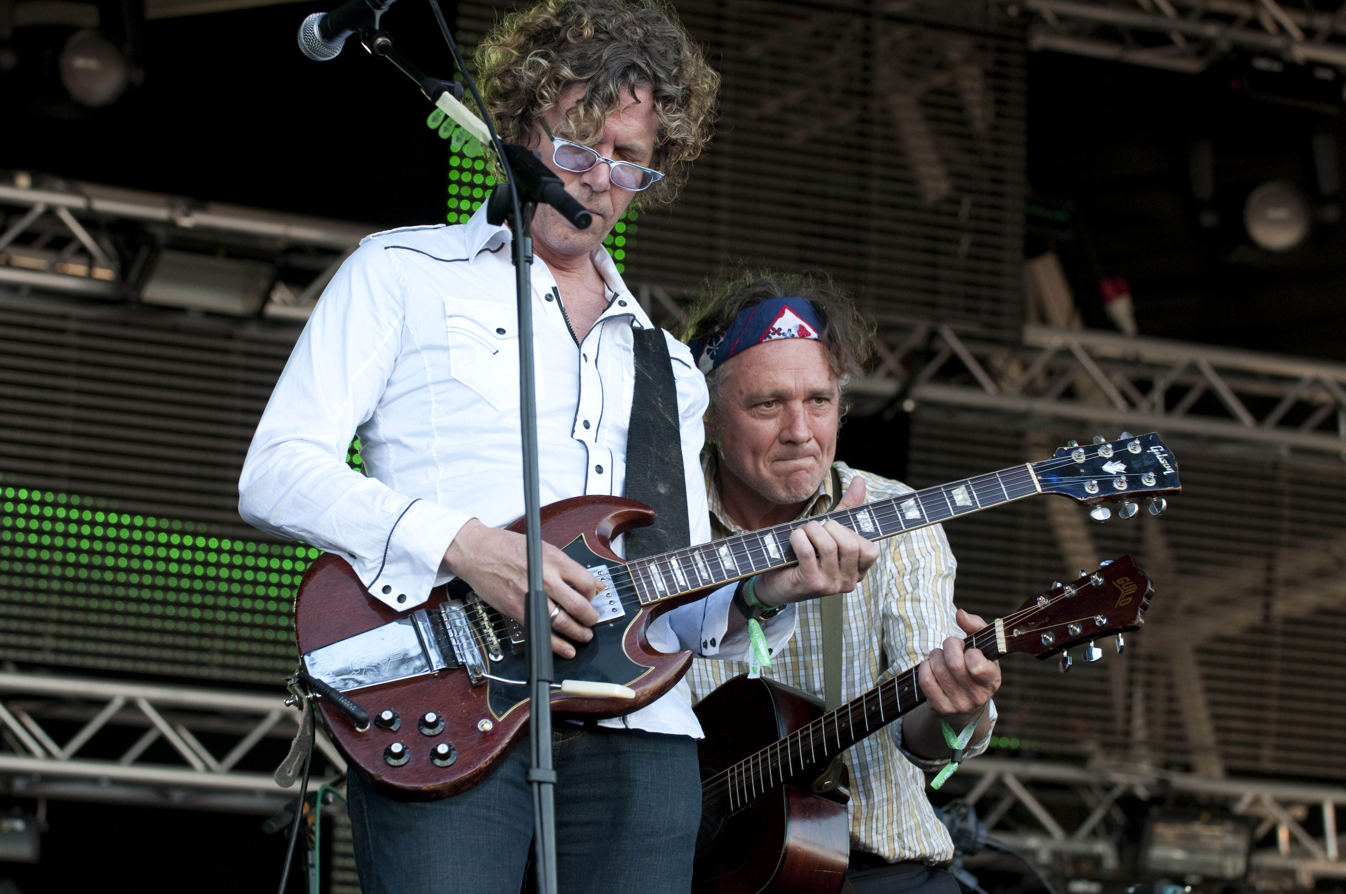 The Jayhawks